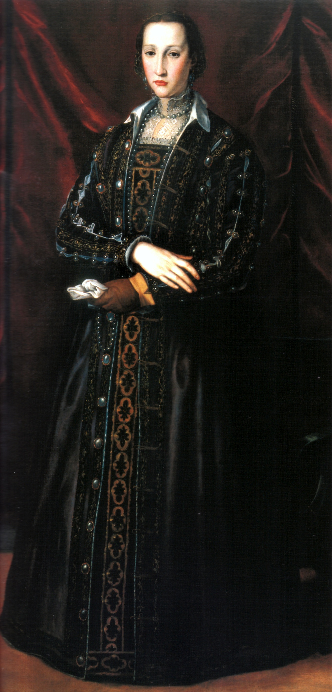 Eleonora of Toledo, duchess of Florence and Siena, in full lenght potrait. The painting is based on a portrait by Bronzino nowadays present in many copies (Bode-Museum, Berlin; Schloss Ambras, Innsbruck; National Gallery of Art, Washington D.C.). This is the only version in full lenght with another poor quality copy preserved in the Villa medicea di Cerreto Guidi (Florentine school, beginning of the XVII century).